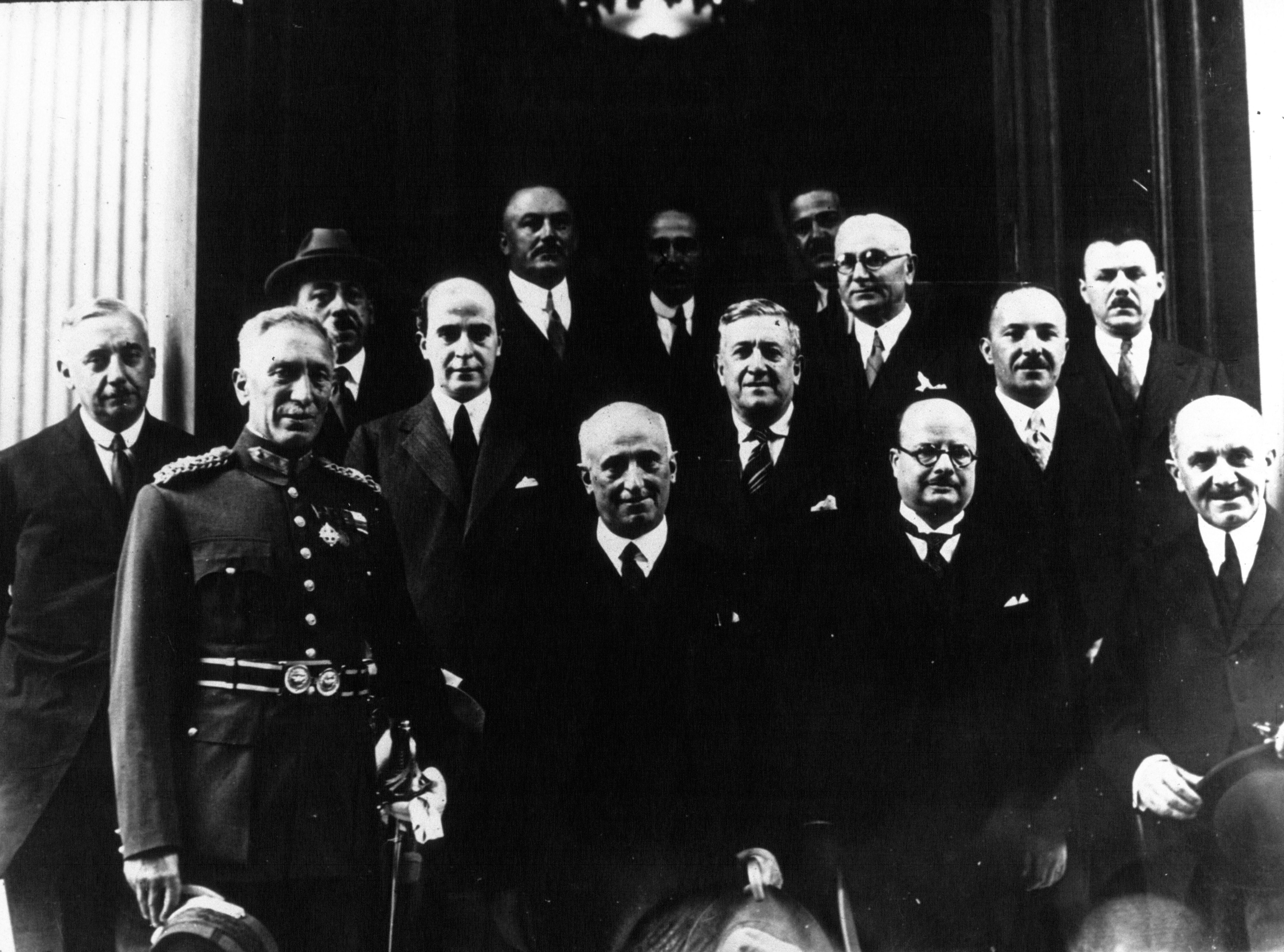 The cabinet of Alexandros Papanastasiou, May 1932. From left: 1st row, G. Skandalis (Vice Minister for Military Affairs and Aviation), unknown general, Prime Minister Papanastasiou, N. Bakopoulos (Interior Minister), unknown, possibly K. Triantafyllopoulos (Minister for Justice & national Economy); 2nd row, K. Varvaressos (Finance Minister), D. Kyriazis (Vice Minister for National Economy), P. Karapanos (Minister for National Education and Religious Affairs), An. Balkabassis (Minister for Agriculture and Welfare); 3rd row, S. Koronis (Transport Minister), D. Kalitsounakis (Vice Minister Governor-General of Crete), A. Sideris (Vice Minister for Finance), A. Theologitis (Vice Minister Governor-General of Epirus), D. Irakleidis (Vice Minister to the Prime Minister)